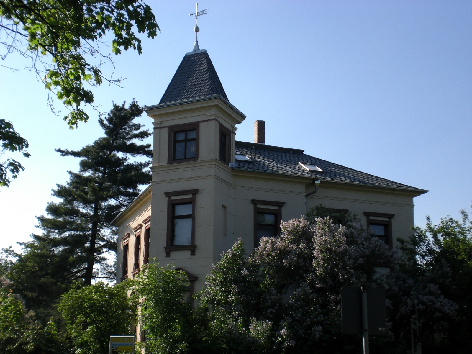 mansion Ledenweg 13